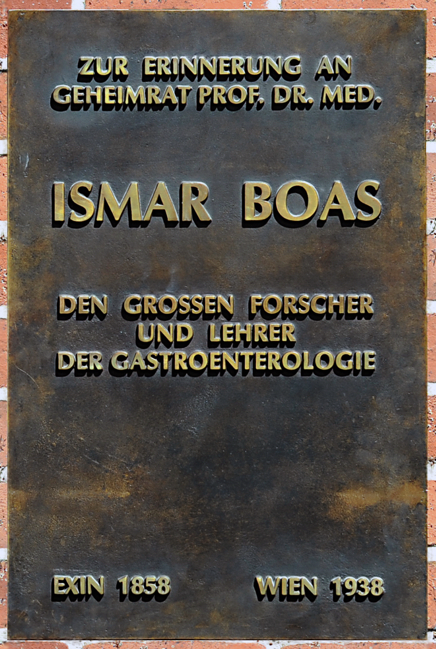 Memorial plaque, Ismar Boas, Virchowweg 10, Berlin-Mitte, Germany